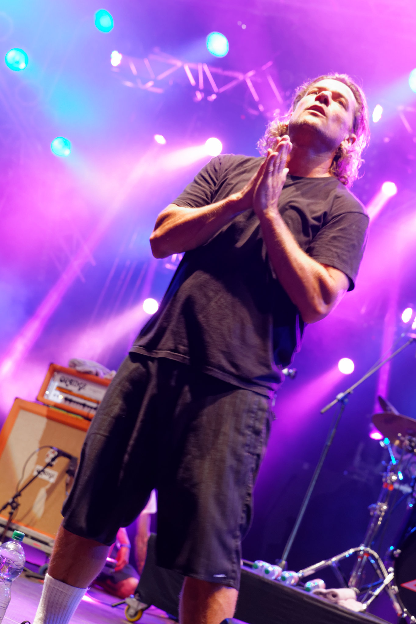 Ugly Kid Joe playing at the "Eier mit Speck" festival in Viersen, germany, 2013